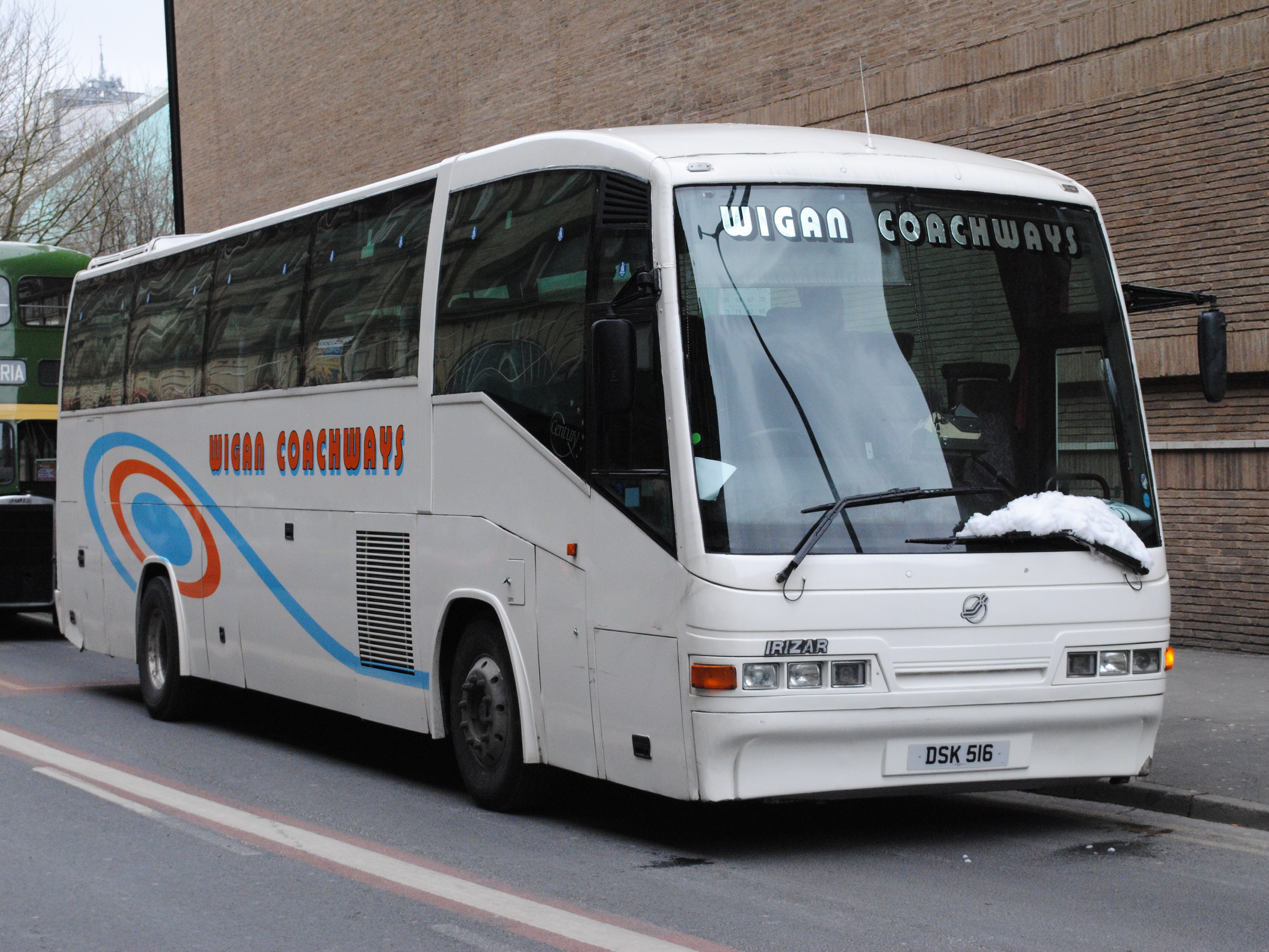 Scania K340EB4 Irizar Century. new to First Aberdeen 20019 P579FRS